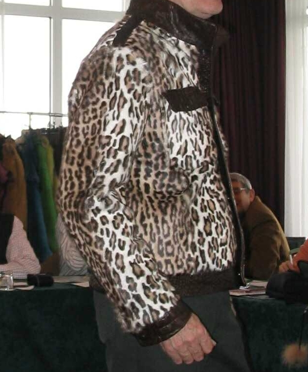 Kid fur skin man's jacket